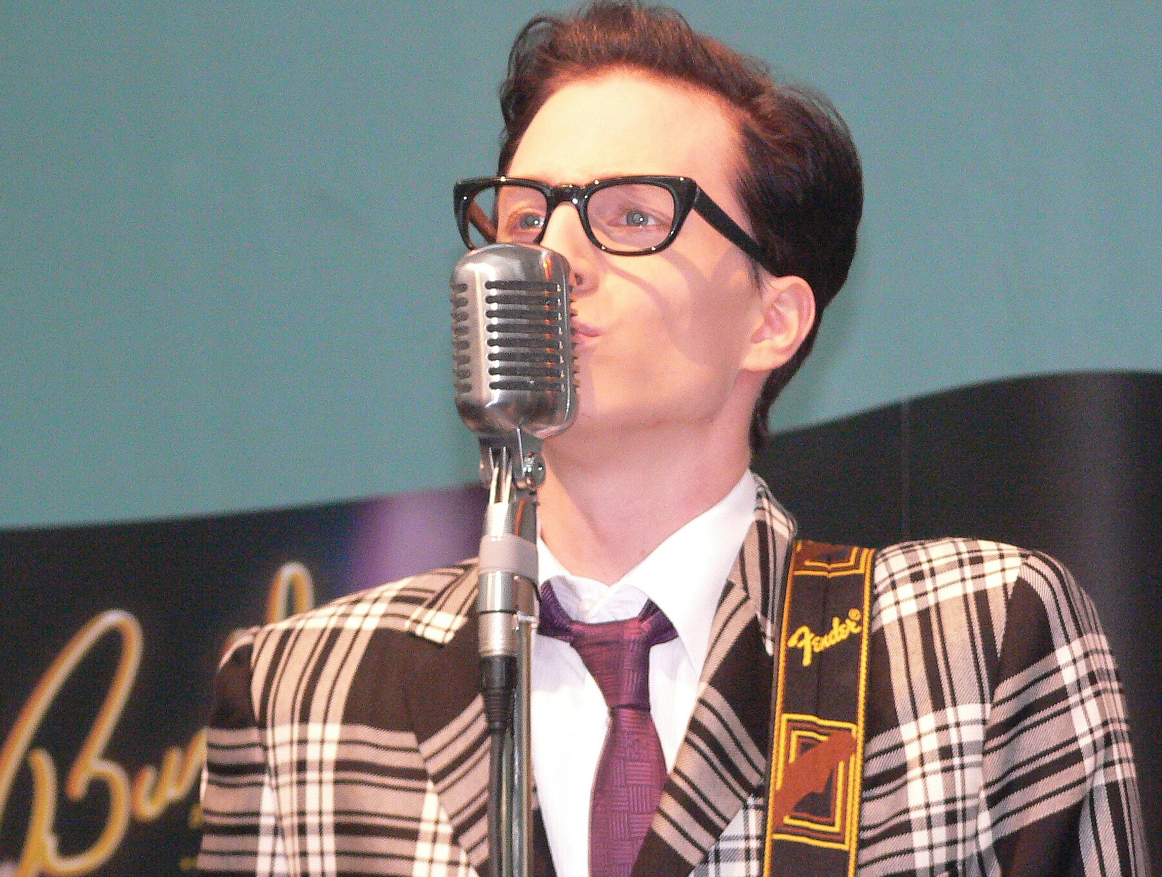 Scene from Musical "Buddy" in Germany. Matthias Bollwerk as Buddy Holly